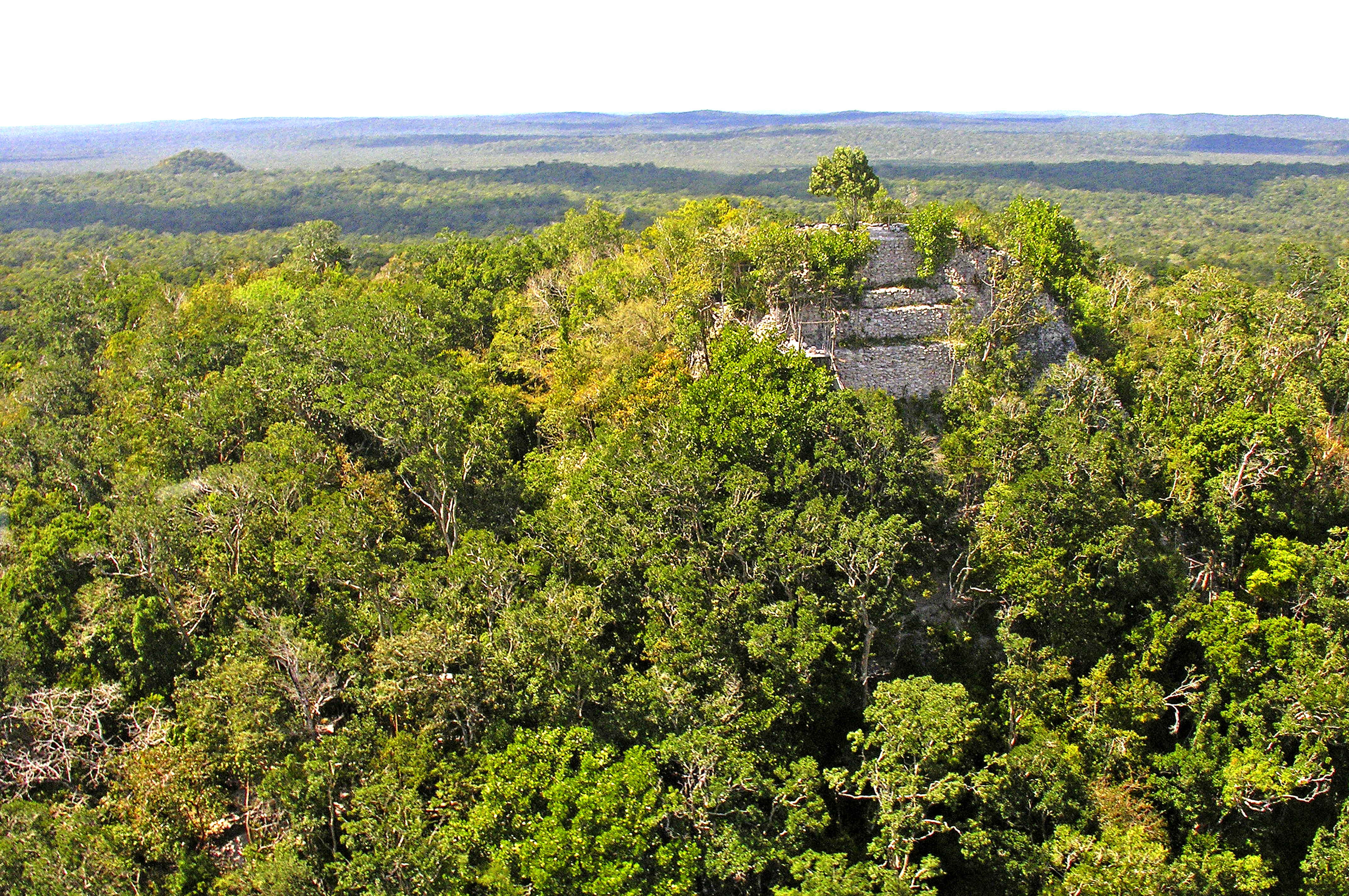 PLEASE, no multi invitations, glitters or self promotion in your comments. My photos are FREE for anyone to use, just give me credit and it would be nice if you let me know. Thanks I took a helicopter ride to reach this site, a cost of $700 US and was told I was among the first 1000 people to visit the place. As you can see the site is covered in rain forest. It use to take two days on a donkey to reach the site and two days back. It was expensive but a highlight of my life. View of La Danta pyramid, it is the largest Maya temple ever built. The temple reaches 79 metres (259 ft) high, and with a volume of 2,800,000 cubic meters, it is one of the largest pyramids, if not the largest, in the world. I climbed to the top and had to use a rope to pull myself up at times, no steps at that time. La Danta is considered by some archeologists to be one of the most massive ancient structures in the world. In 2003, Dr. Richard D. Hansen, a Senior Scientist from Idaho State University, initiated major investigation, stabilization, and conservation programs at El Mirador with a multi-disciplinary approach, including staff and technical personnel from 52 universities and research institutions from throughout the world. El Mirador flourished from about the 6th century BC, reaching its height from the 3rd century BC to the 1st century AD, with a population of perhaps more than a hundred thousand people. It then experienced a hiatus of construction and perhaps abandonment for generations, followed by re-occupation and further construction in the Late Classic era, and a final abandonment about the end of the 9th century. The civic center of the site covers some 10 square miles (26 km2) with several thousand structures, including monumental architecture from 10 to 30 meters high.